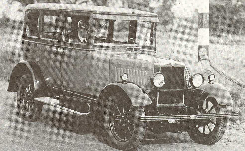 1928 Morris Cowley saloon